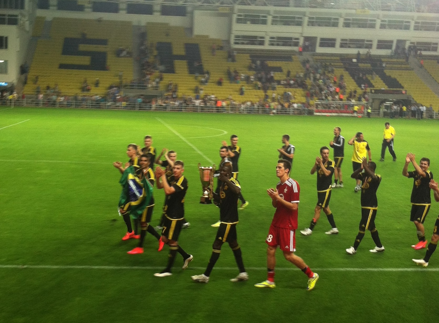 FC Sheriff Supecup 2015 (cropped)